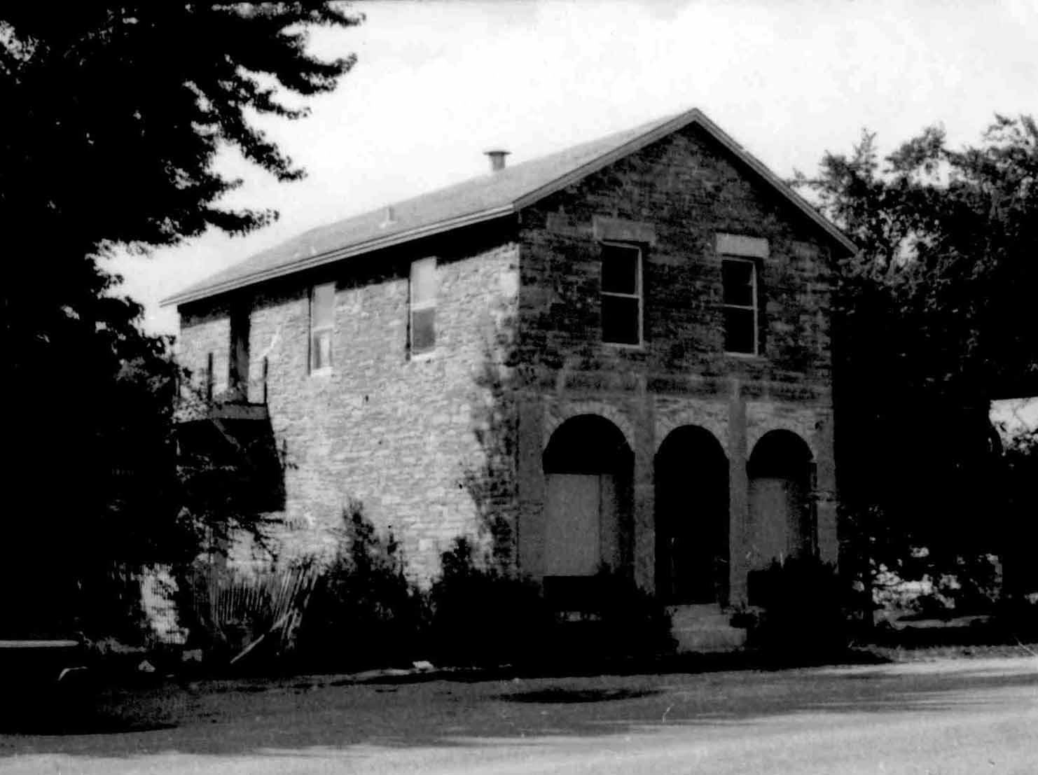 Ault Store, Dundas, Minnesota, USA. This photo was taken before the buildings late-1970s renovation which removed the arched tops above the first floor storefront windows, which had been added over the buildings life and were not in the original design. Digitalized slide from the Minnesota State Historic Preservation Office at the Minnesota History Center.